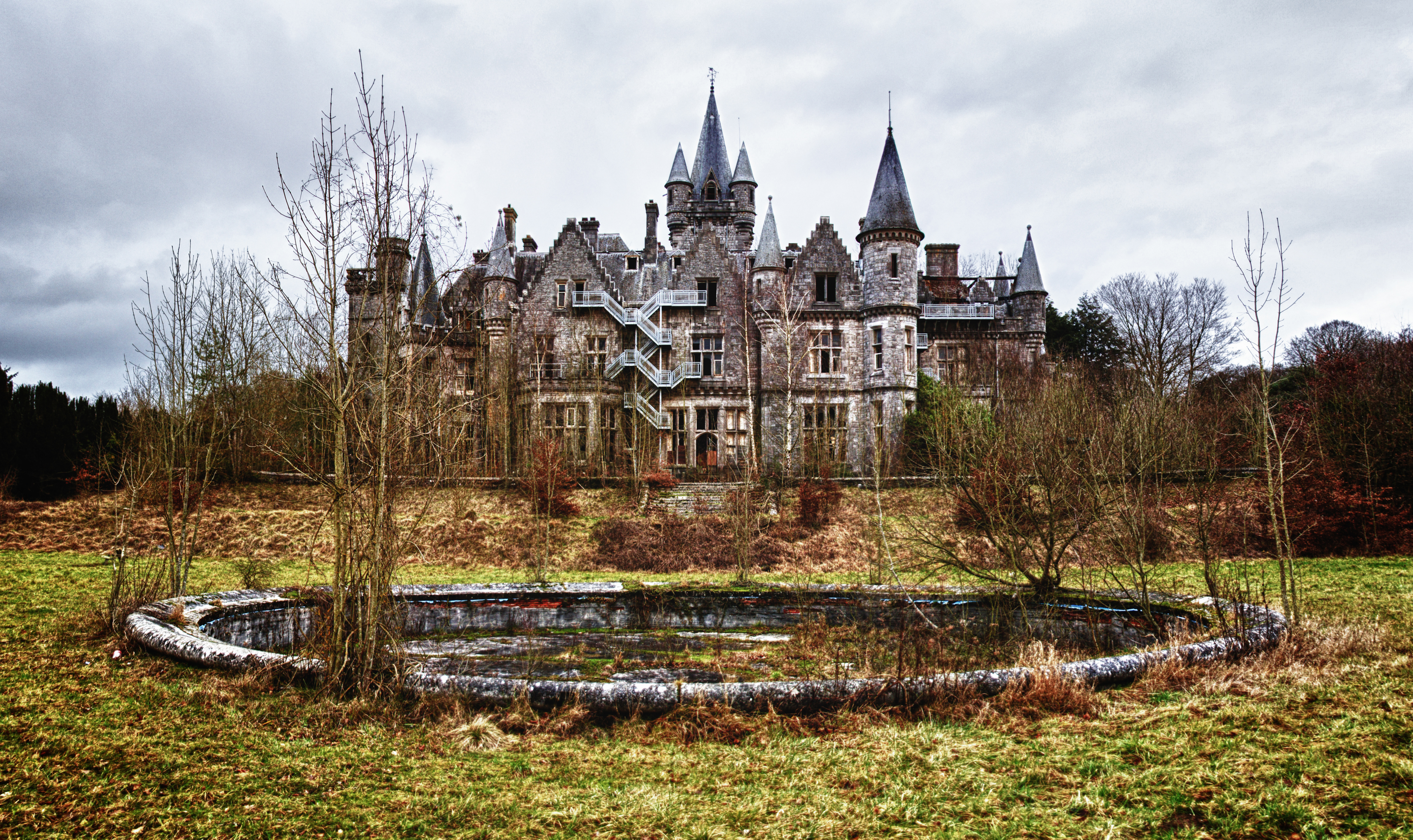 Château Miranda / Château de Noisy - Celles - Belgium Highest position Explore: #87 on Saturday, January 7, 2012